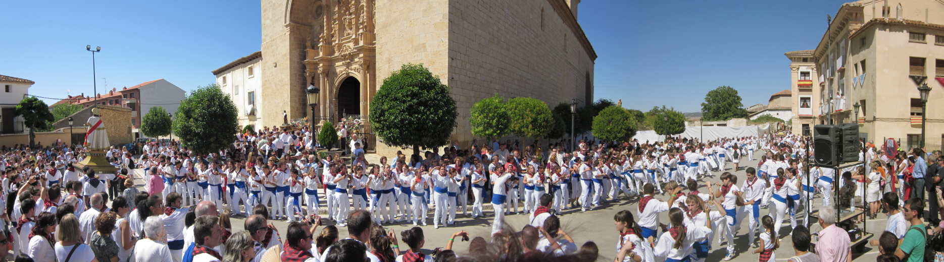 Baile San Roque